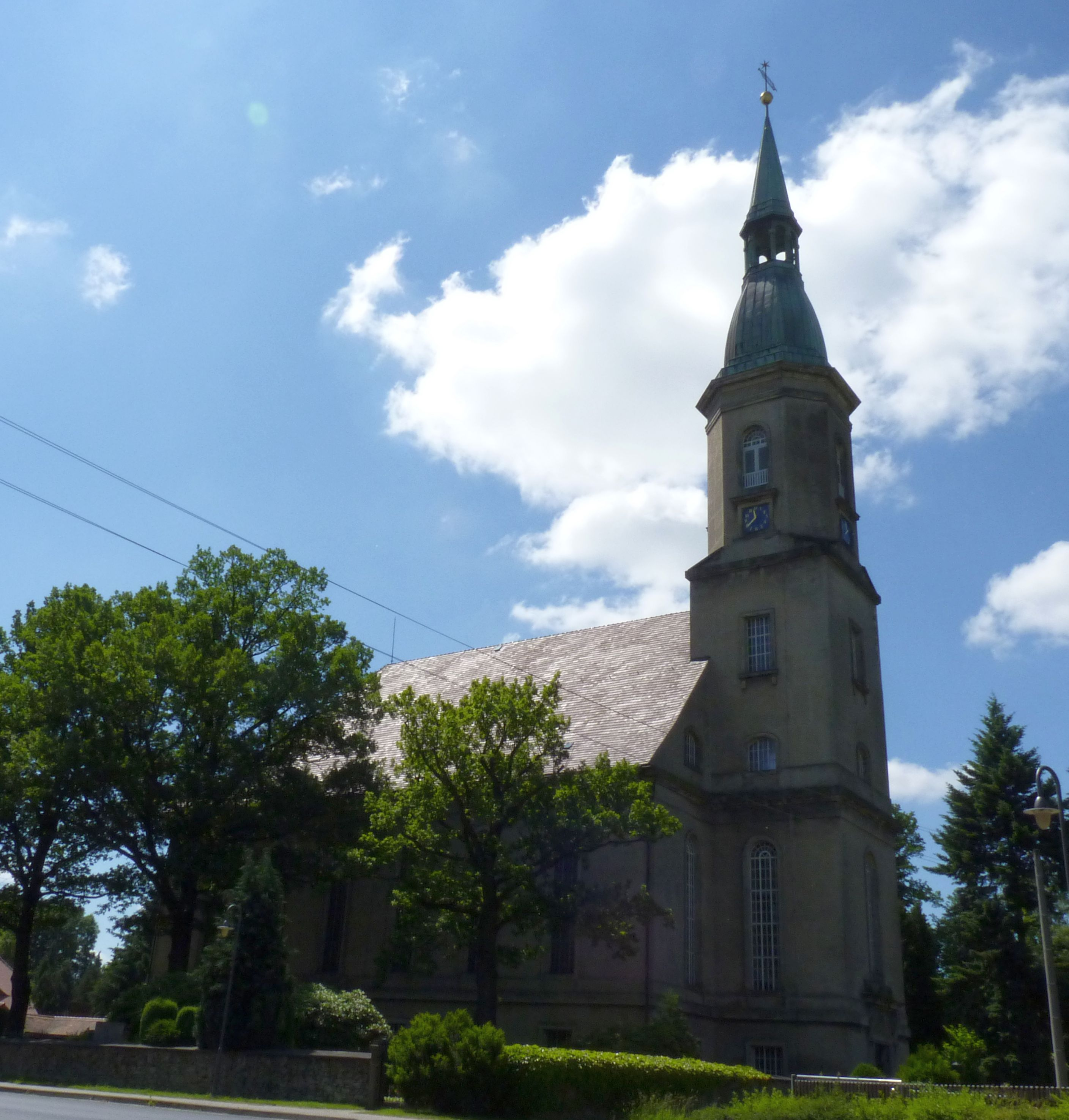 The Church of Oberoderwitz in June 2010.